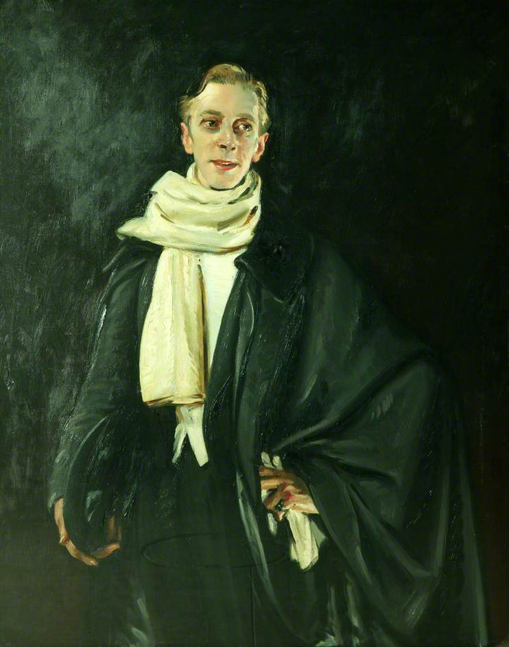 William Ranken (1881-1941)/Manchester City Galleries; Supplied by The Public Catalogue Foundation. Ernest Thesiger